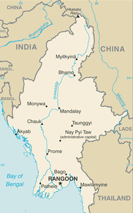 A map of the course of the Ayeyarwady river throug Myanmar in South-East Asia.